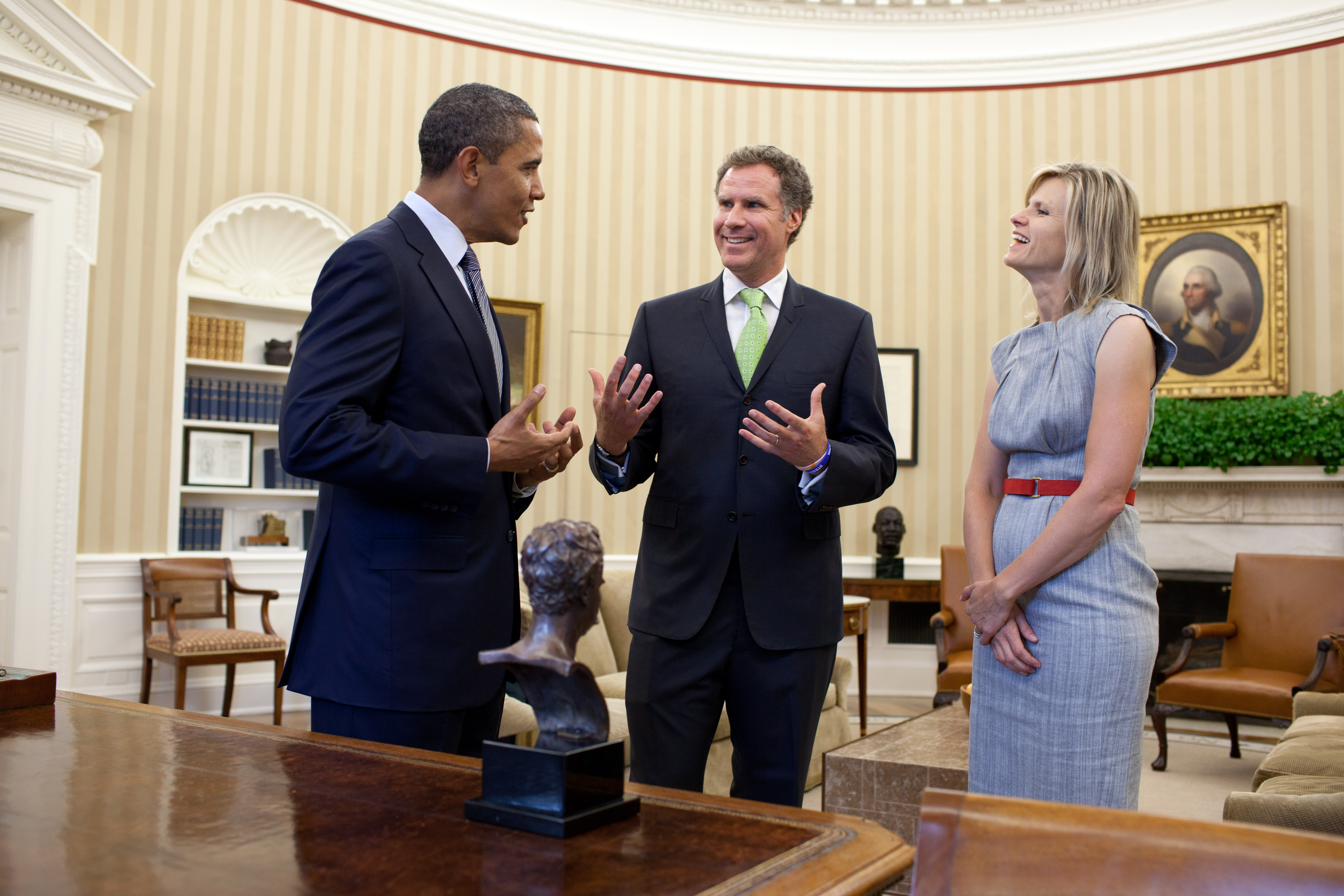 President Barack Obama meets with Will Ferrell in the Oval Office to congratulate him on recently winning the Mark Twain Prize for American Humor, Oct. 21, 2011. Ferrell's wife, Viveca Paulin, is at right. (Official White House Photo by Pete Souza)